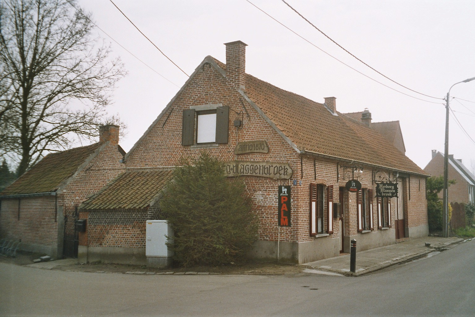 Inn (Dutch: Herberg) in the village Vlassenbroek, the part of Baasrode town, which is a part of Dendermonde munitipality